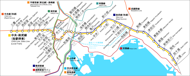 Map of Chuo-Sobu Line (Local).